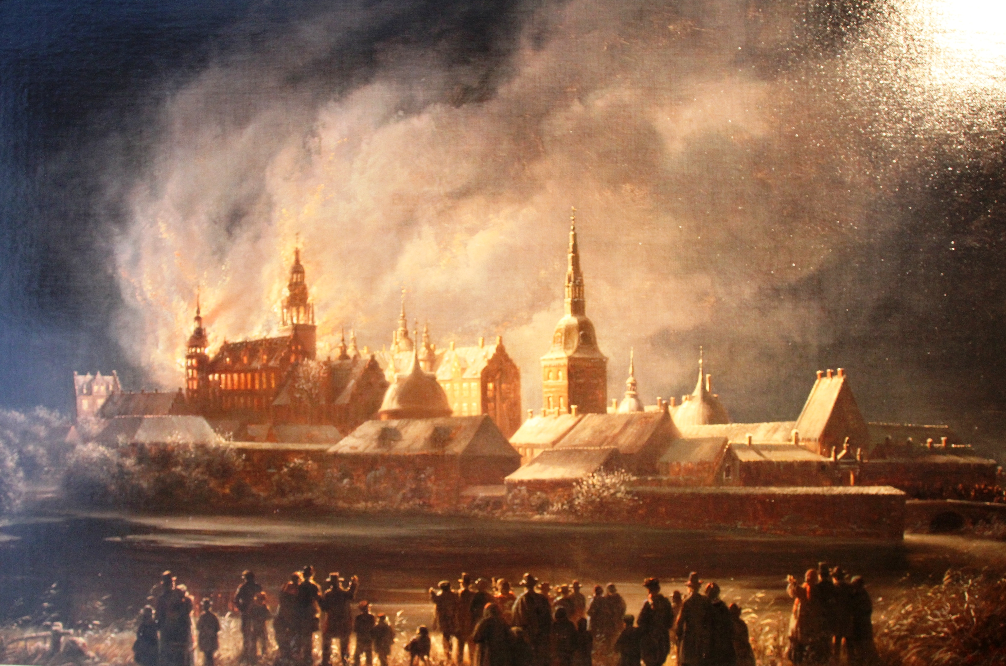 Photo of painting in the Frederiksborg Castle, Sjælland (Zealand), eastern Denmark